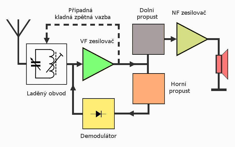 Block Diagram